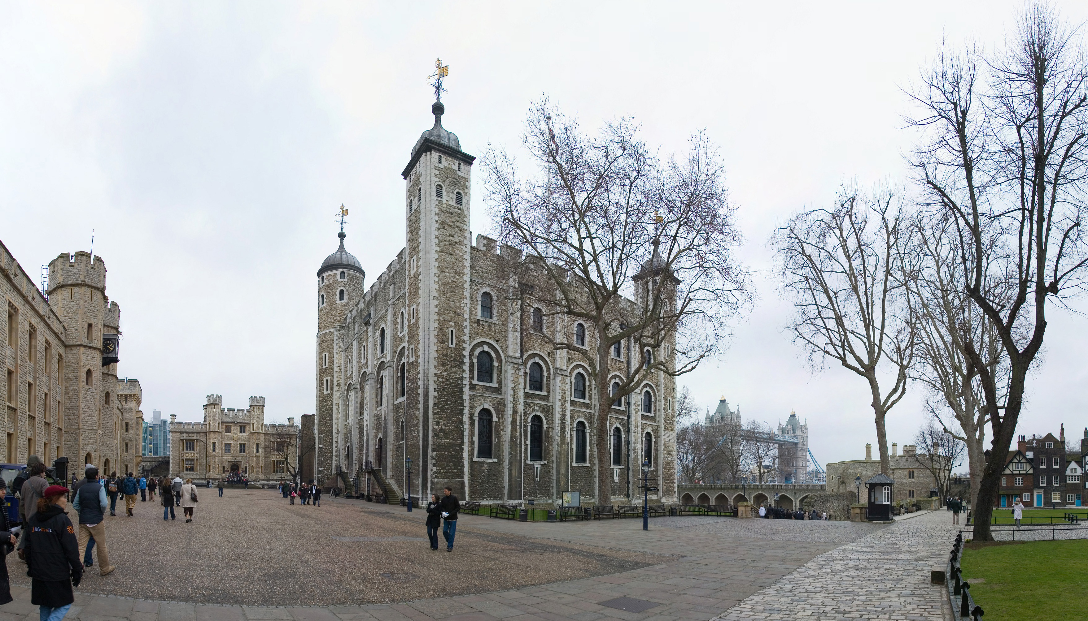 This is a 3x3 segment panorama of the White Tower of the Tower of London. Taken by myself with a Canon 5D and 24-105mm f/4L IS lens.